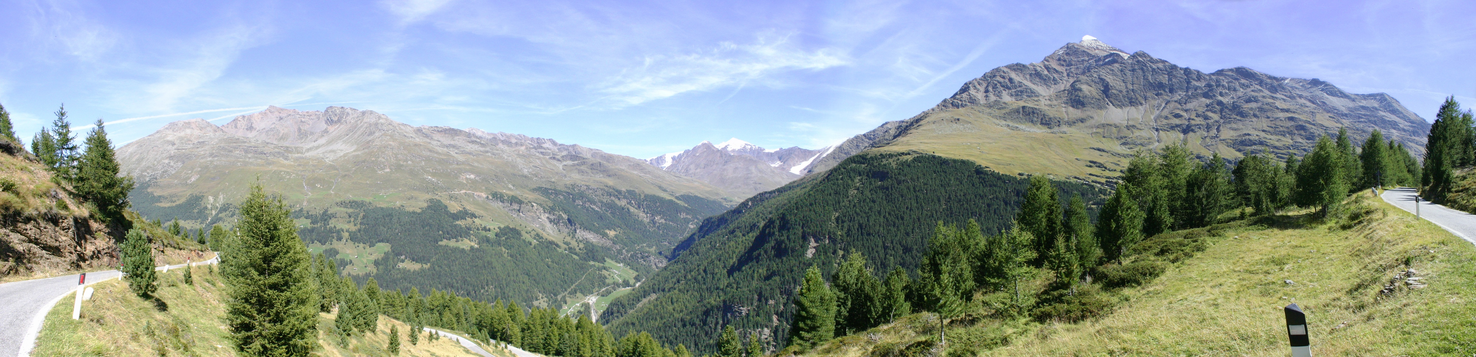 Passo di Gavia, northern approach